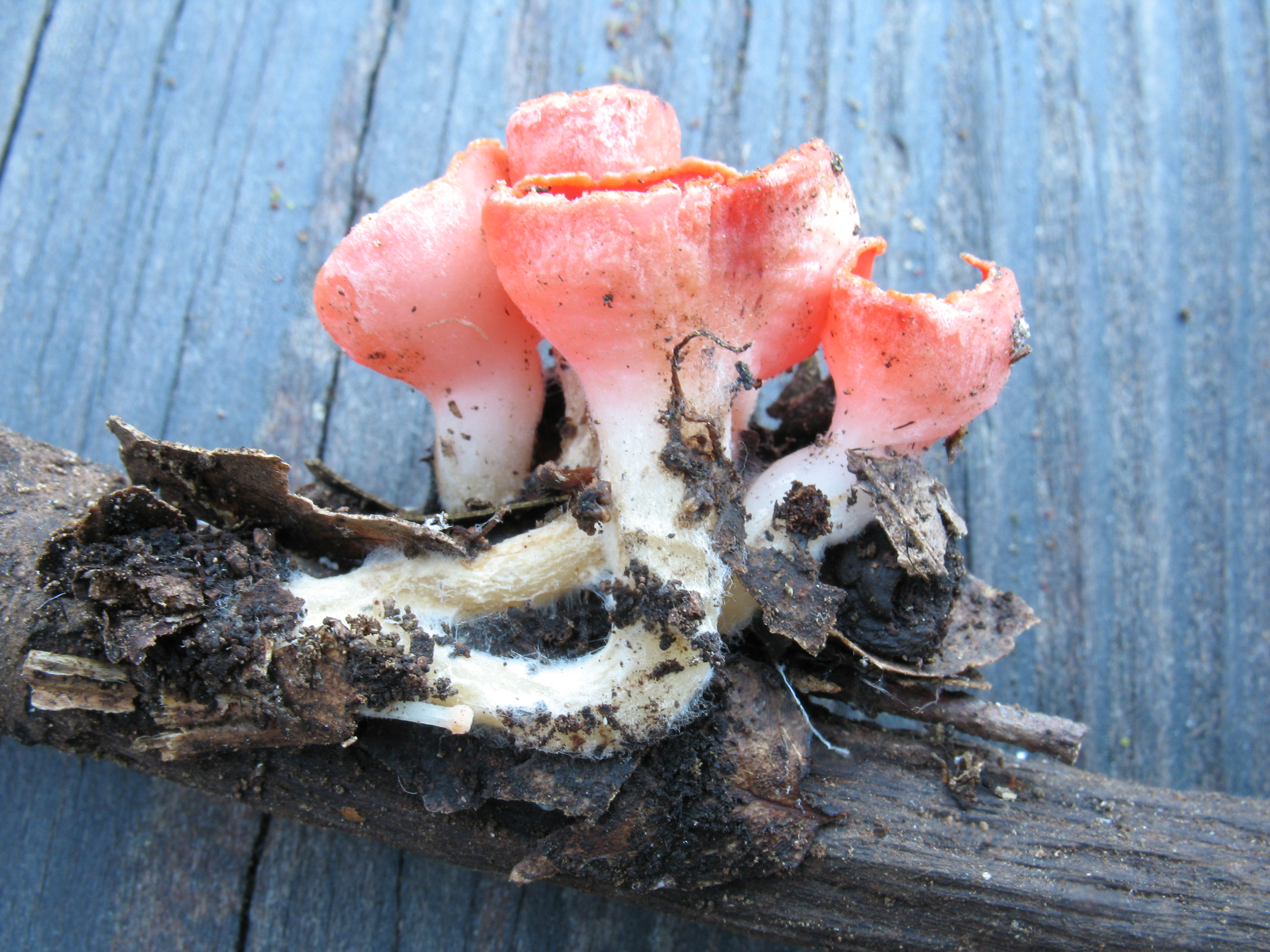 A view of the scarlet cup fungus, Sarcoscypha coccinea, showing the stalks. Specimen found at the SOMA Camp, Occidental, Sonoma Co., California, USA